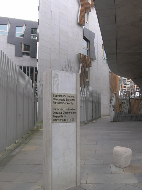 Canongate Entrance, Scottish Parliament